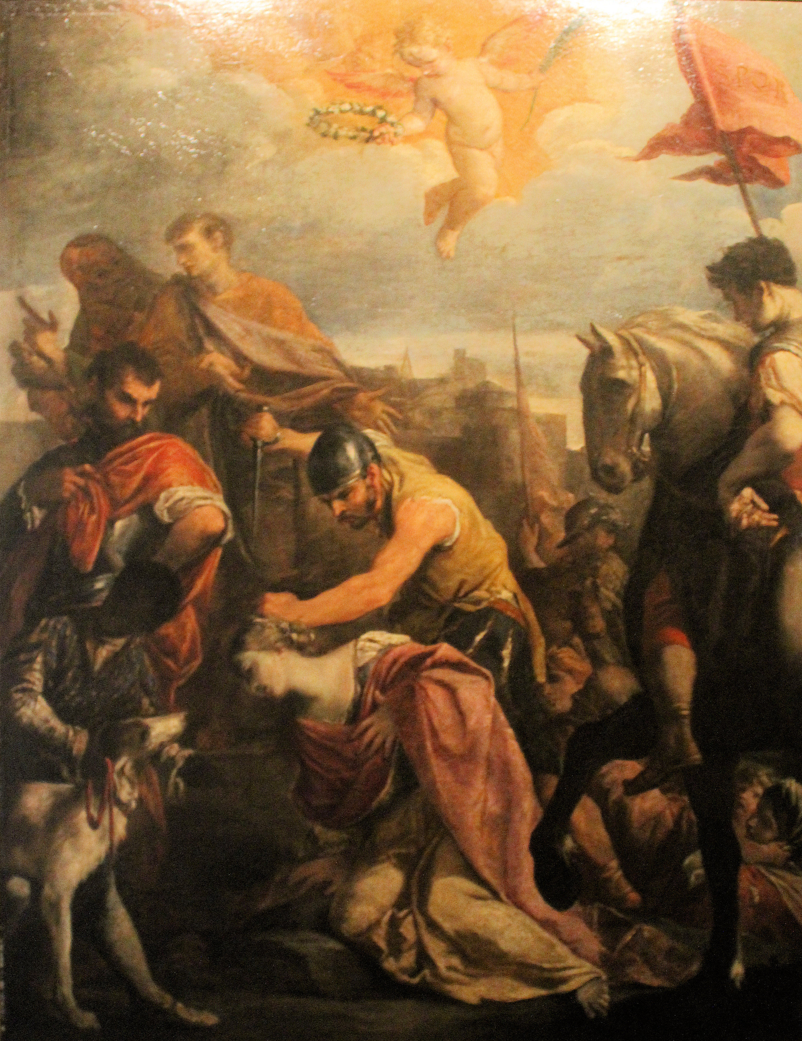 Giovanni Antonio Burrini, the martyrdom of the Saint Victoria, national museum in the Château de Compiègne, temporary exhibition in Musée départemental de l'Oise